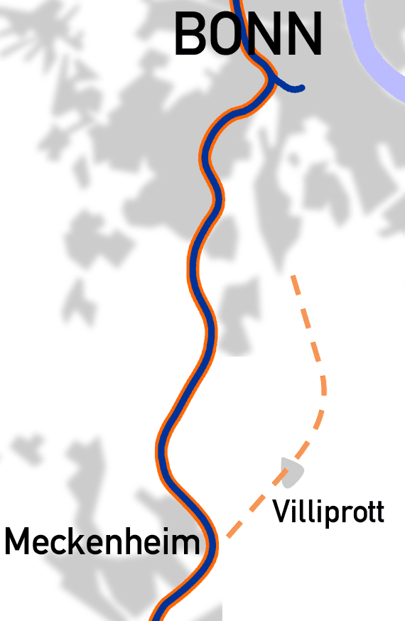 previous section of Bundesautobahn 565 near Wachtberg-Villiprott